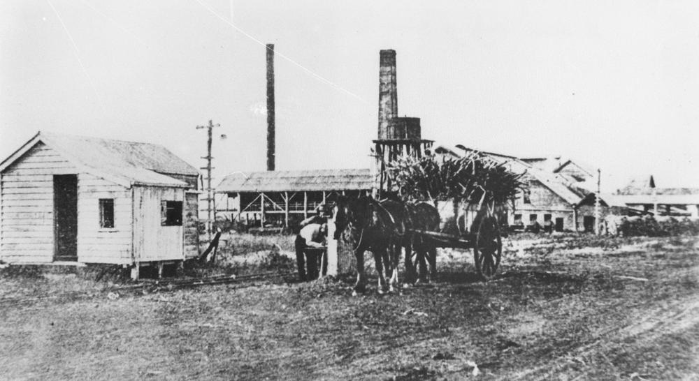 Horsedrawn cart at weighbridge infront of Qunaba Sugar Mill, Bundaberg, 1909 Queensland National Bank branch which was built in 1887 was the owner of QUNABA Mill. The bank purchased Mon Repos' Juice Mill in October 1899 and renamed it “Qunaba”, using the first two letters of each word of its own name (Queensland National Bank). Qunaba Mill reached its peak production in the early 1980s, when the crop exceeded 300,000 tonnes. The high labour costs, coupled with the looming prospect of further loss of production area was the catalyst in the decision to close the factory. The end came on 13th November 1985, when the last bin was tipped at 2:26pm.